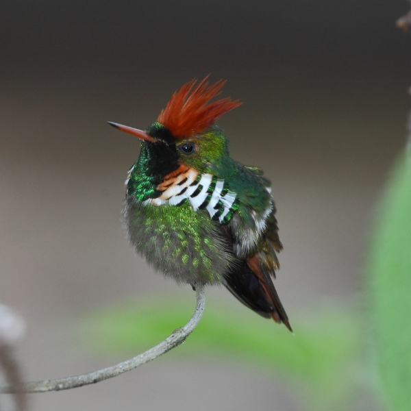 Frilled Coquette (male) at Itatiaia National Park - RJ - Brazil